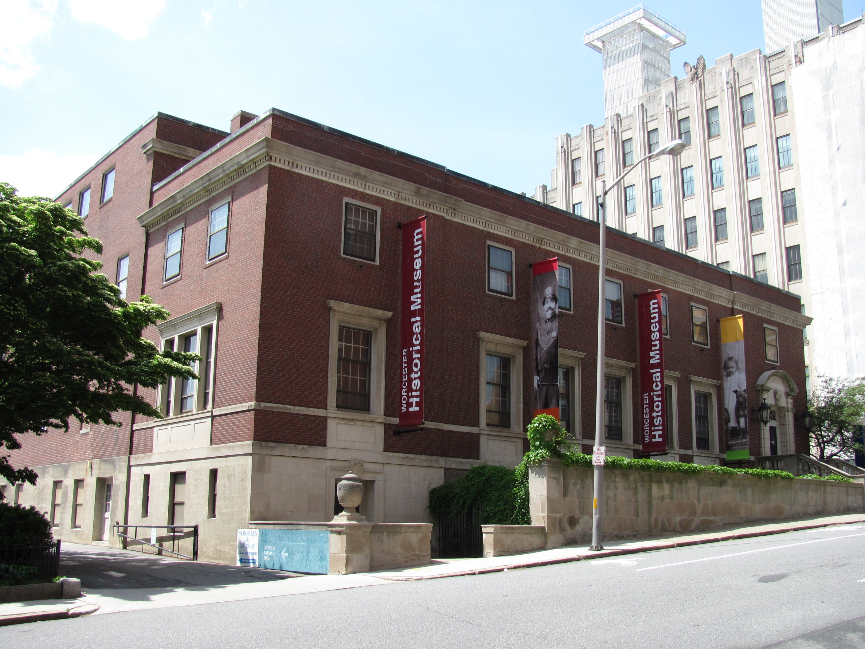 Worcester Historical Museum — in Worcester Massachusetts.